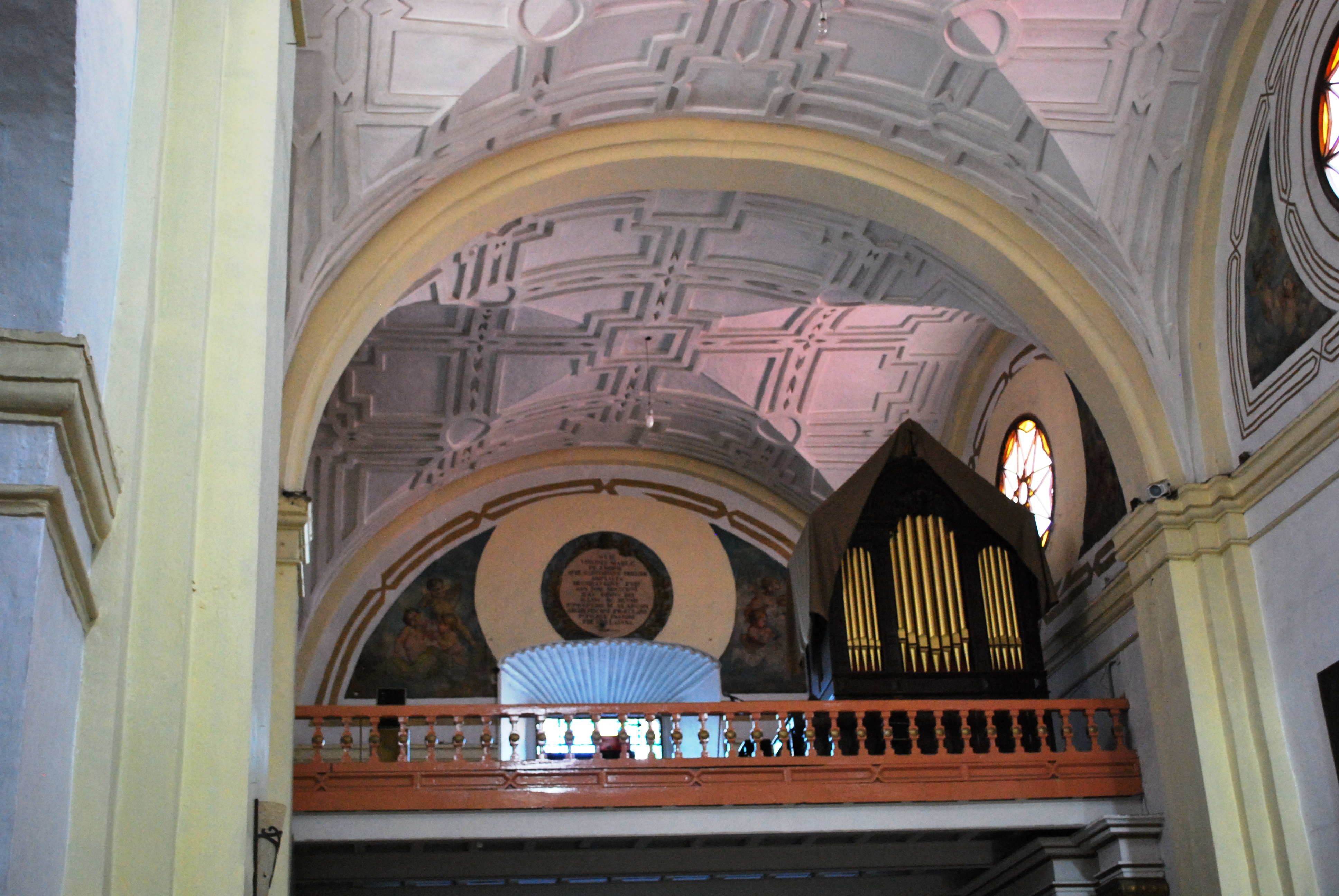 Choir area of the La Asuncion Parish in Pachuca, Hidalgo, Mexico